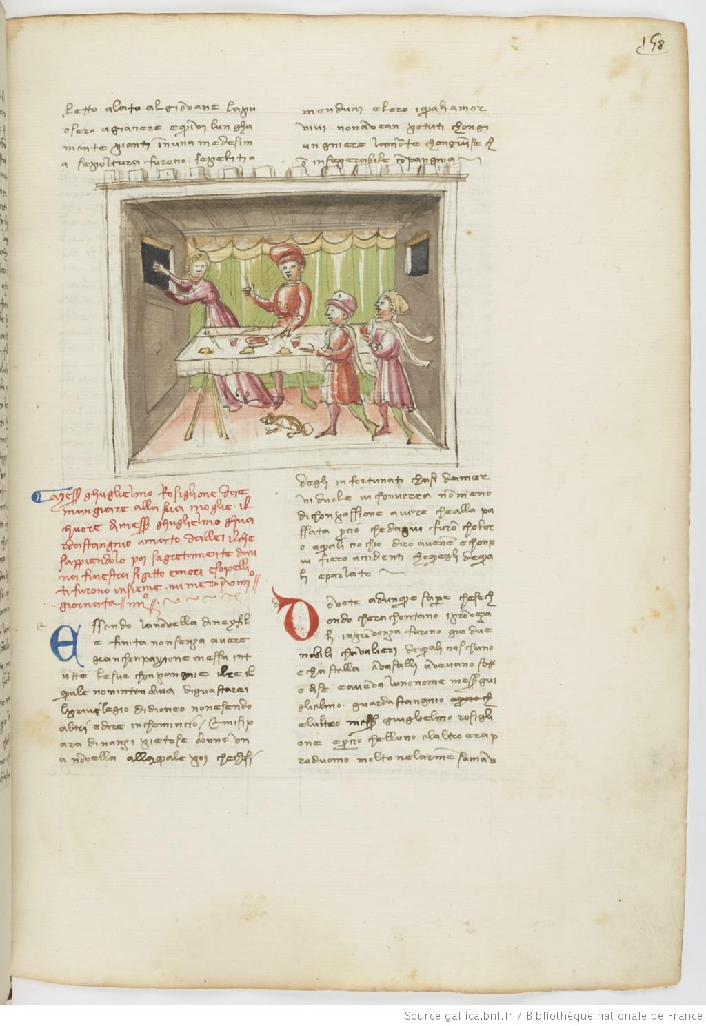 BNF MS Italien 63, fol. 158r: Boccaccio, Decameron: tale 4.9